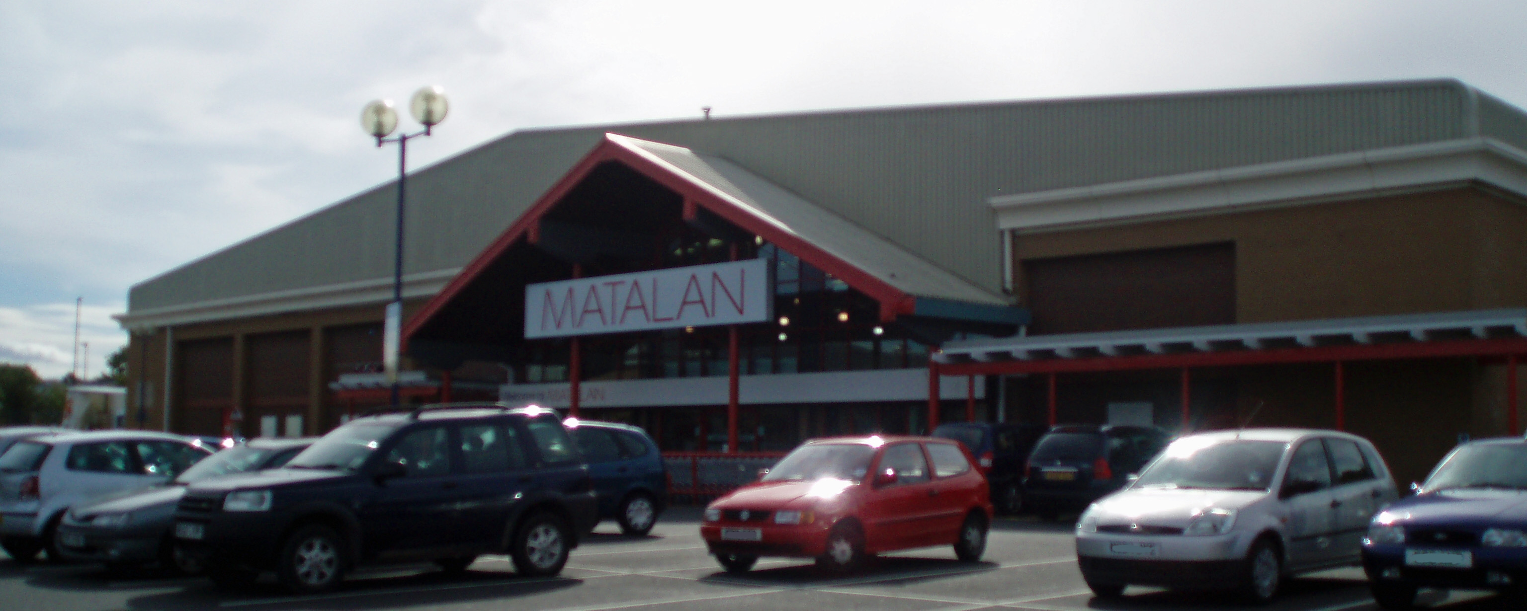 This is an image of the Matalan store at Kingston Park, Newcastle upon Tyne, England